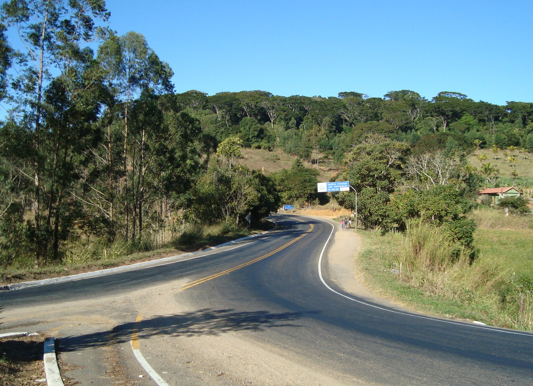 Road MG-285 in Pirauba, Minas Gerais, Brazil